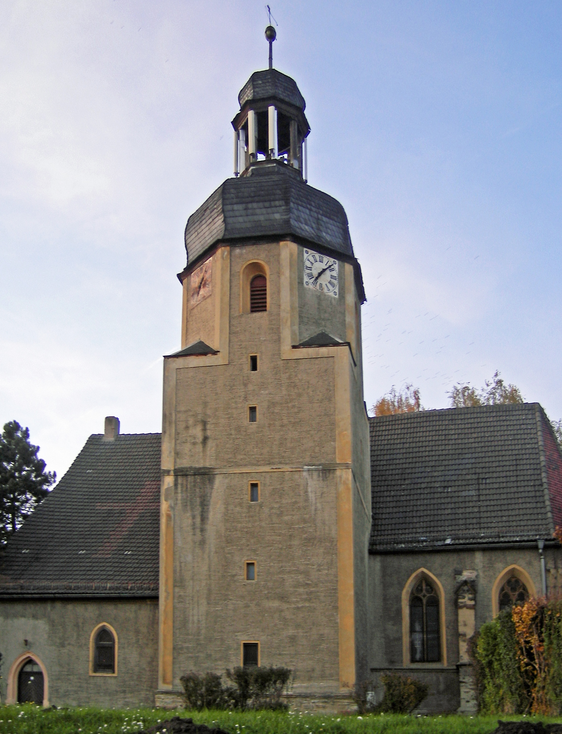 Church in the district Zipsendorf of Meuselwitz/Thuringia (Germany)